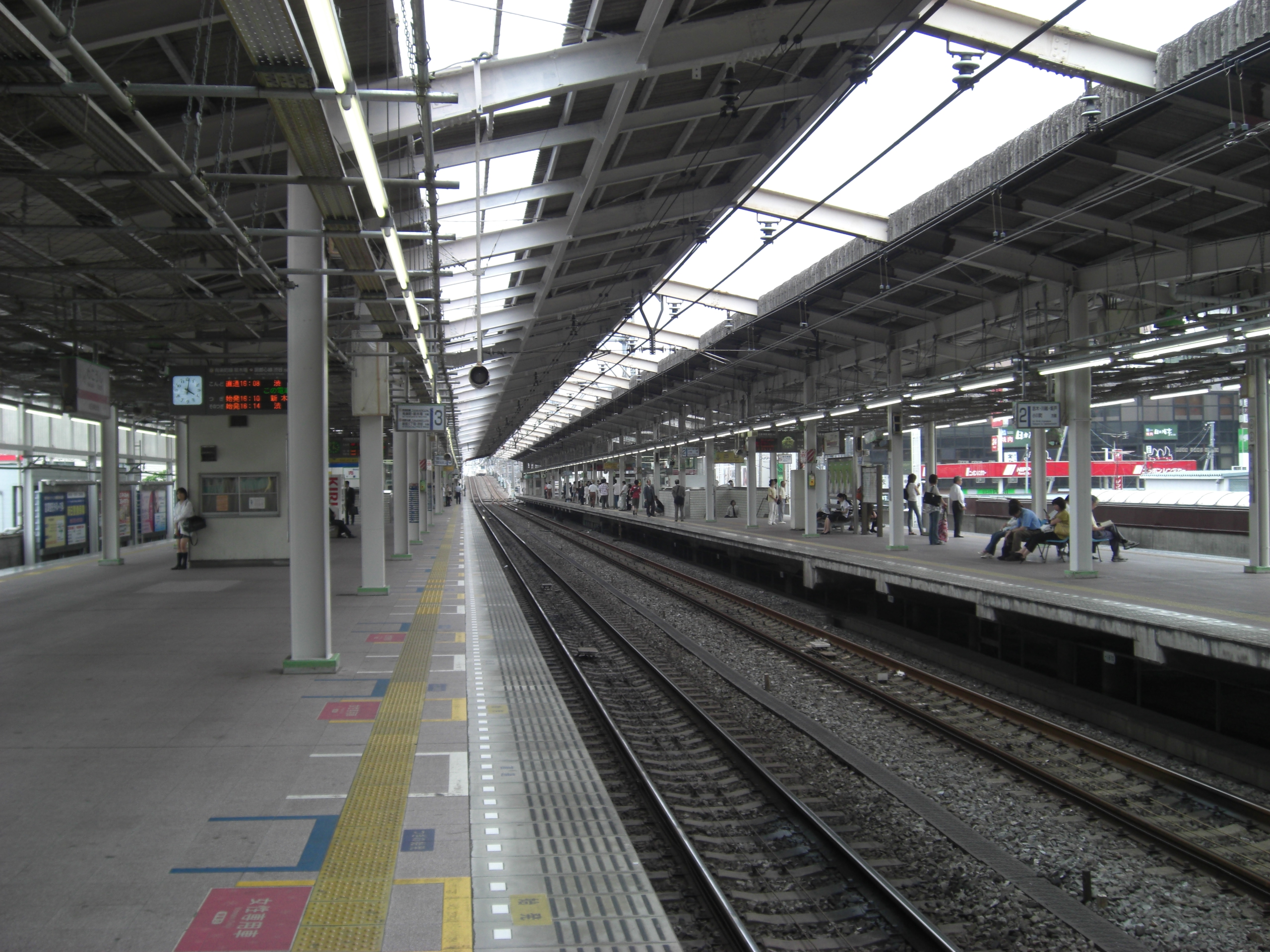 Wakoshi Station on the Tobu Tojo Line